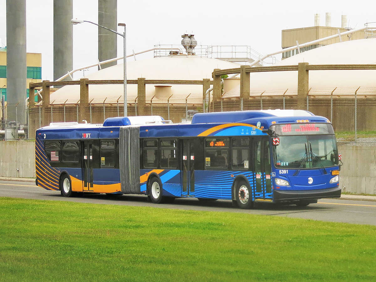 An MTA New Flyer Xcelsior XD60, operated by MTA Bus Company and wearing the new 2016 MTA Livery, is operating along the Q10 Local bus route on 155 Avenue past 130 Place on the grounds of John F. Kennedy International Airport, en route to the Union Turnpike subway station.